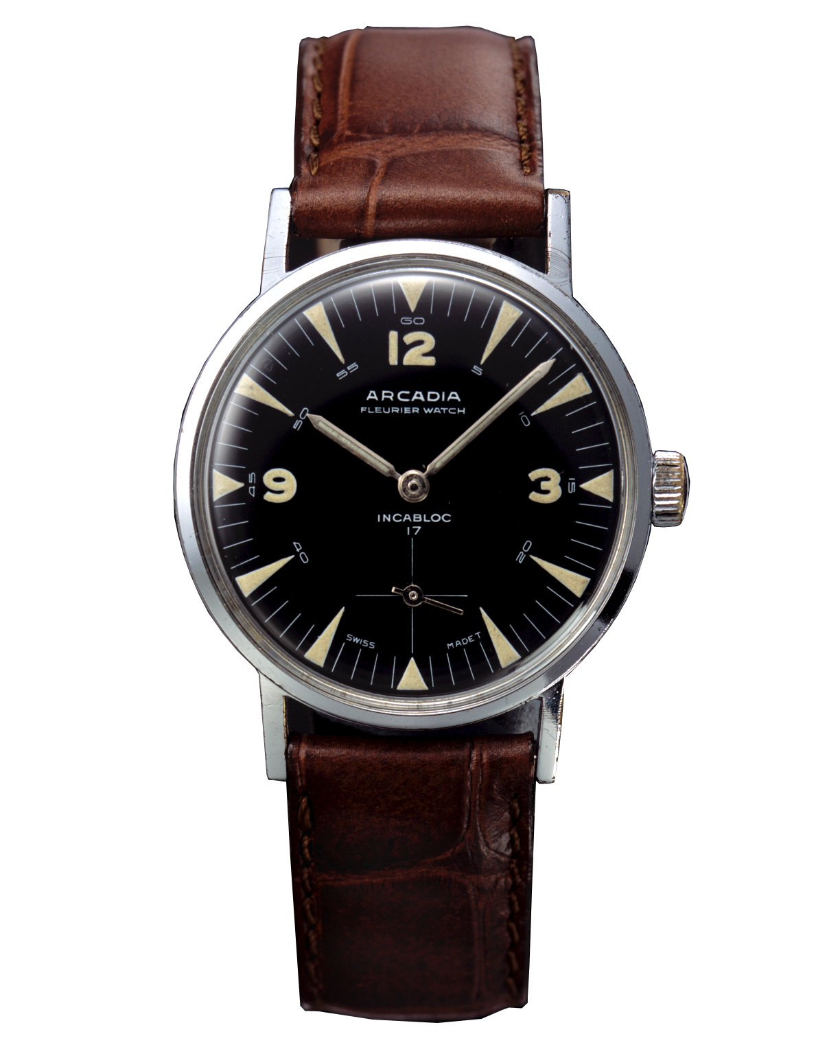 Arcadia watch c1950